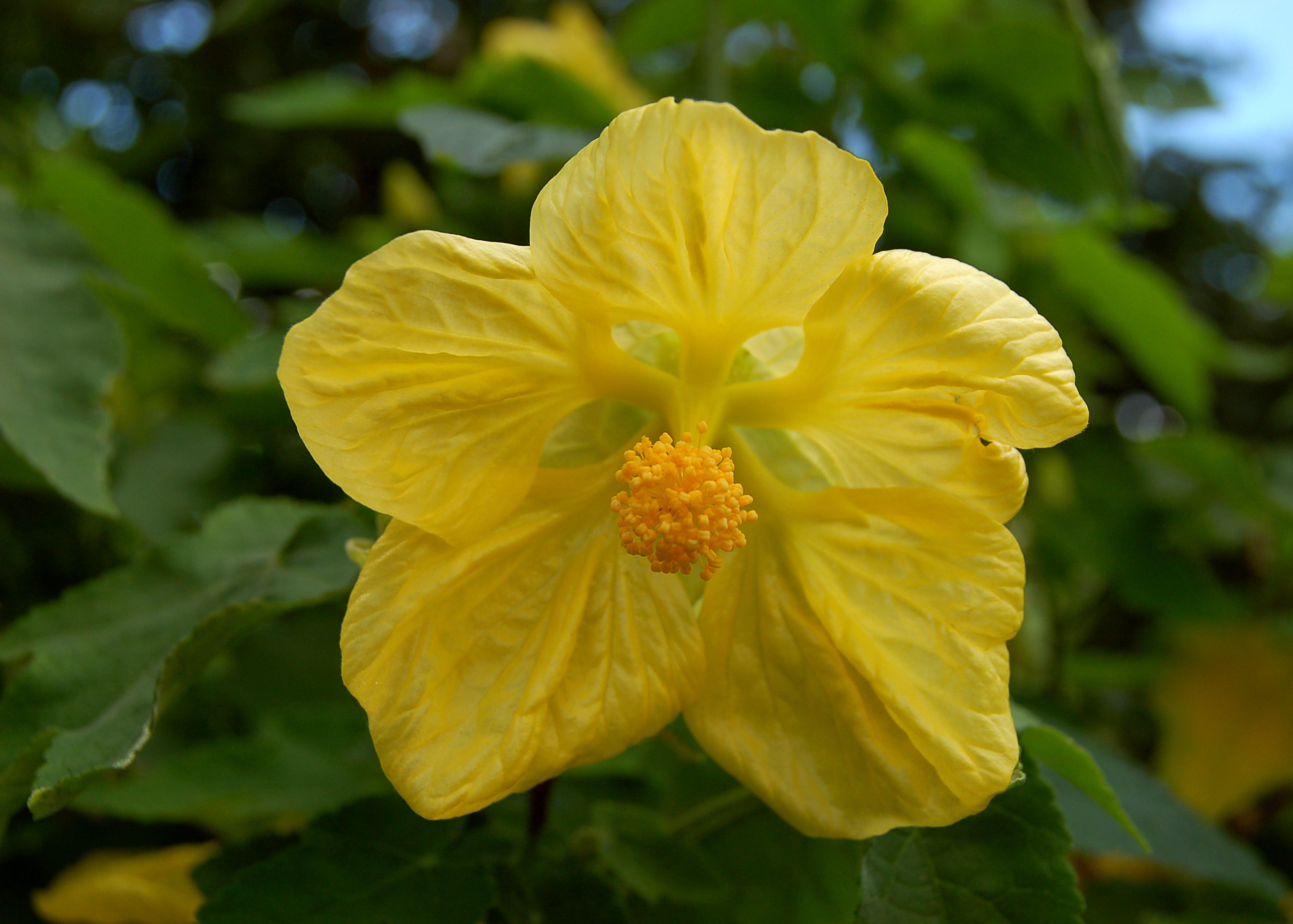 A picture of the flower of the Chinese Lantern (Abutilon x hybridum 'Moonchimes') plant. Photo taken at the Chanticleer Garden where it was identified.